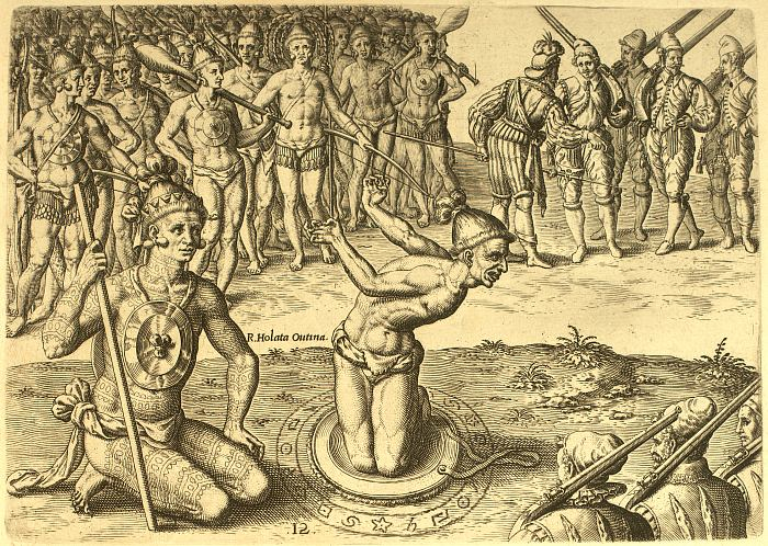 Chief Outina consults his sorcerer before battle. The sorcerer kneels on a shield surrounded with signs scratched in the ground. He contorts himself in an effort to determine the strength of the enemy. Plate XII from De Bry's engravings